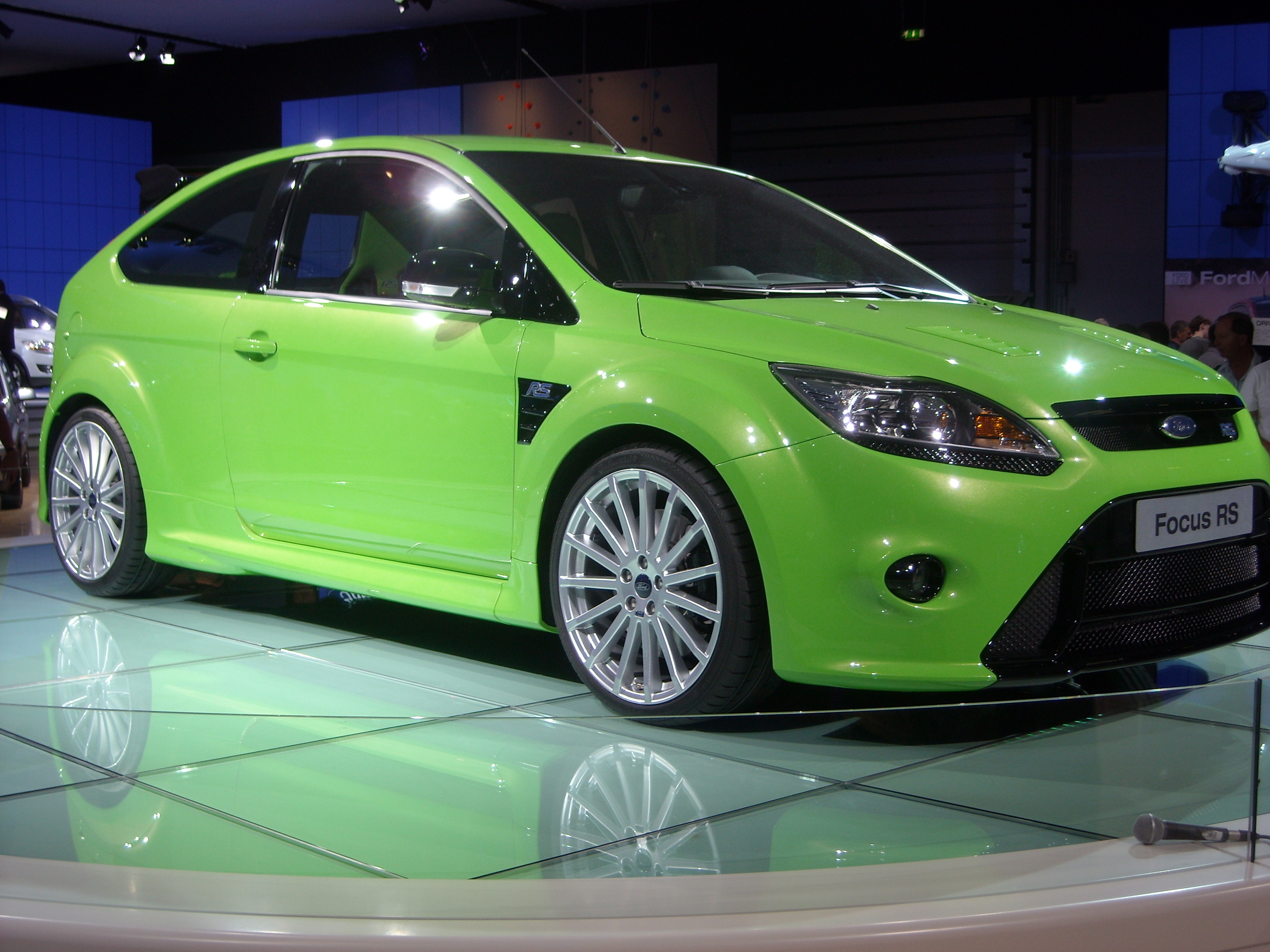 Ford Focus RS Mark II on show at the British Motor Show in July 2008.